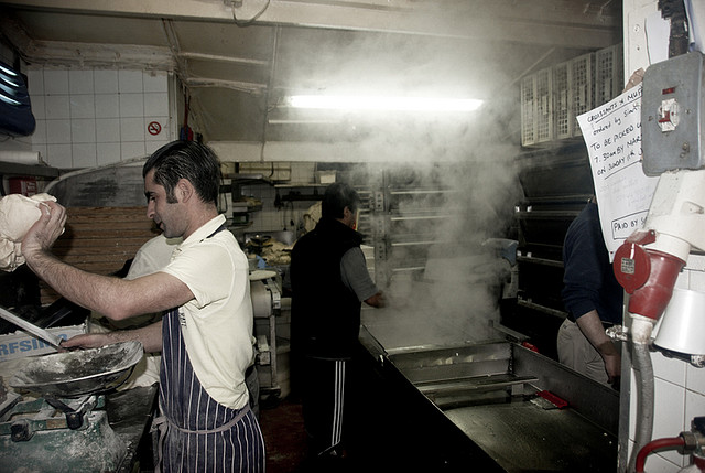 best beigels (not bagels!) in the world. their kitchen is in open view and after several decades, they've established themselves as a true east end institution. (c) duane harrison